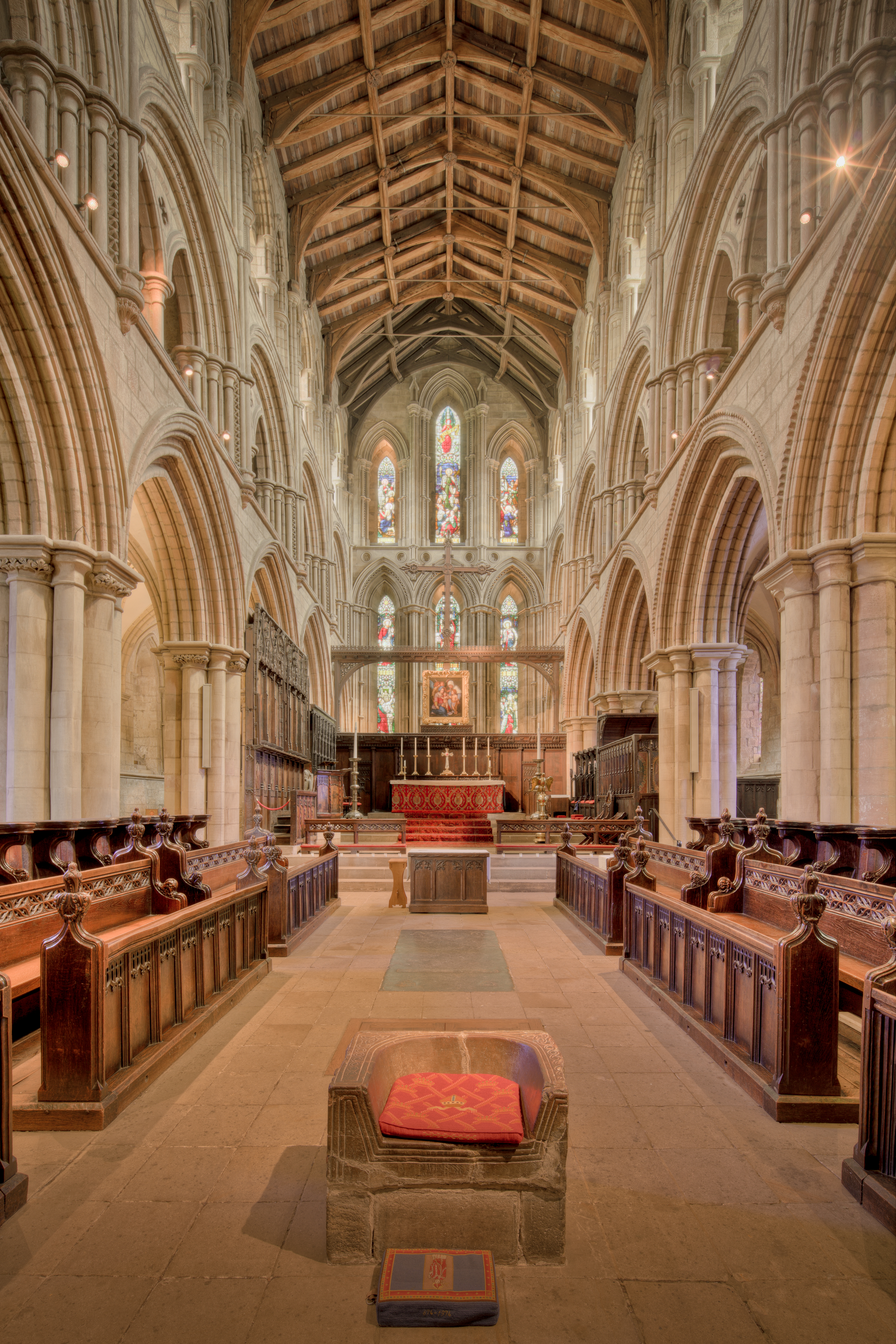 Here is a photograph taken from the choir inside Hexam Abbey. Located in Hexham, Northumberland, England, UK.